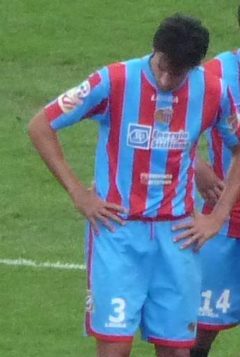 Udinese - Catania 4-2 13/09/2009